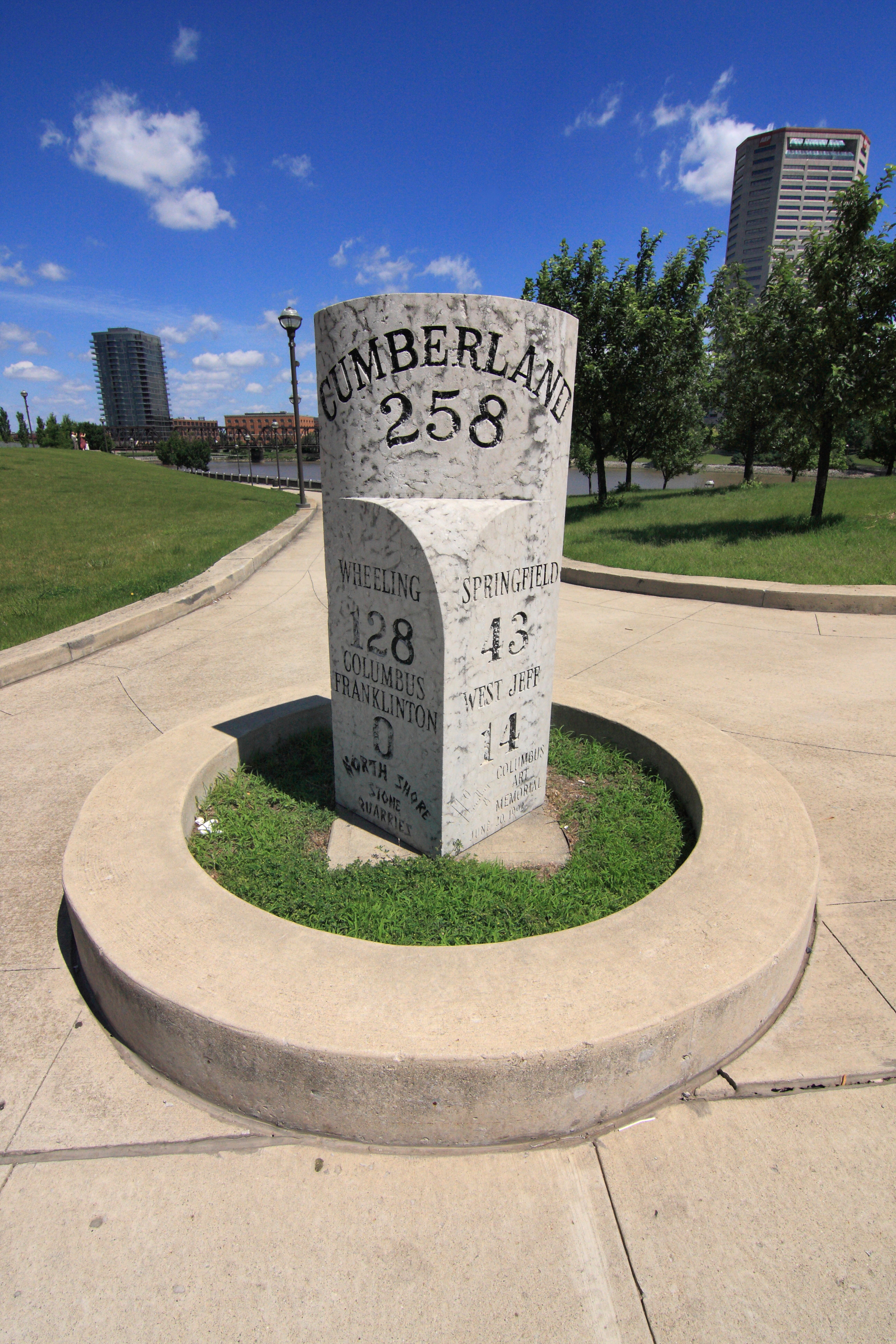 The mile marker just outside of Columbus, Ohio.